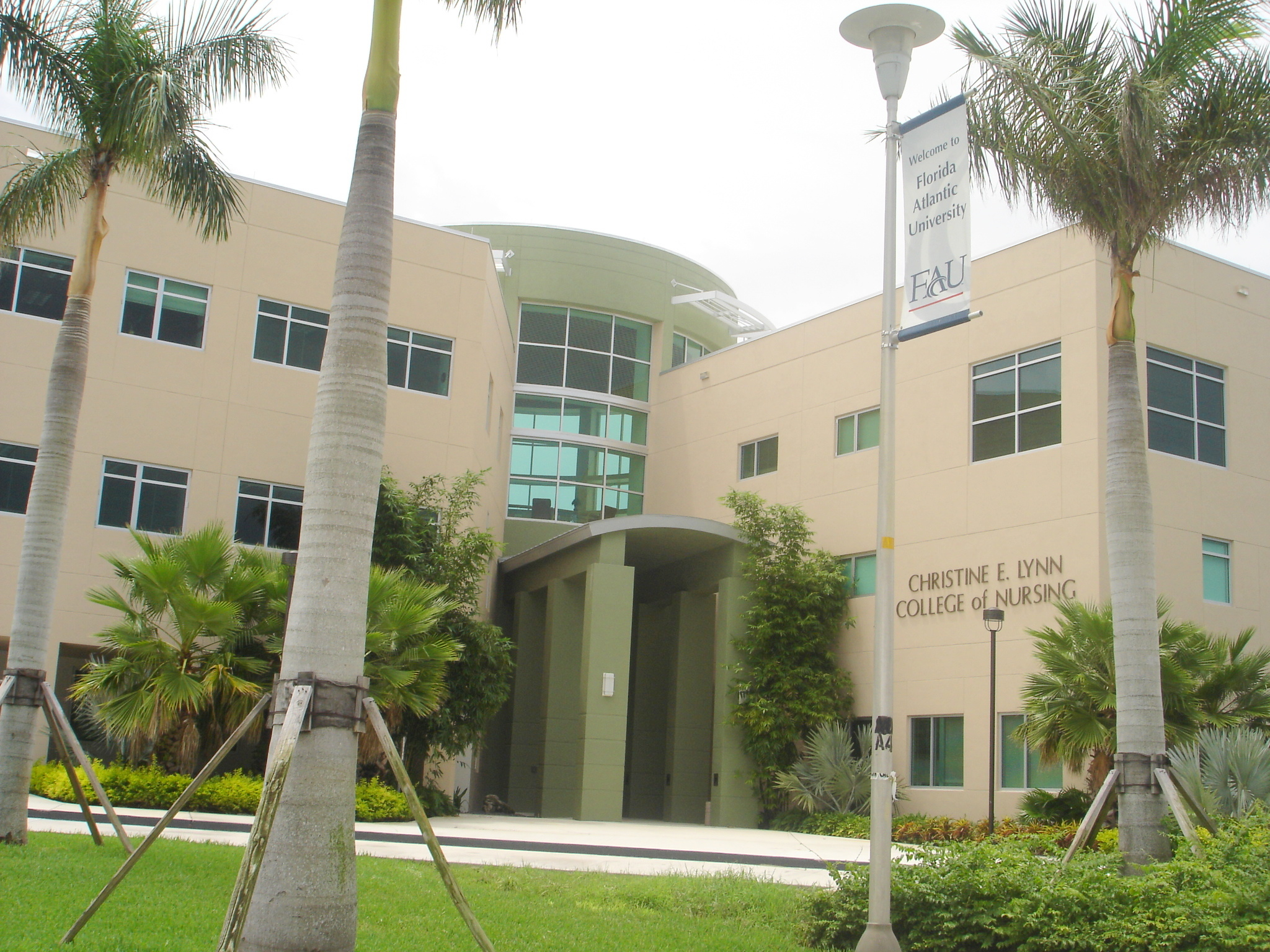 I took this picture on the Boca Raton campus of Florida Atlantic University on 8/20/06 between 12 and 1pm.